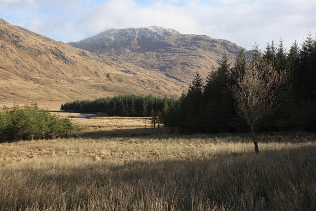 Glen Dessarry Looking towards the 854m peak of Fraoch Bheinn.